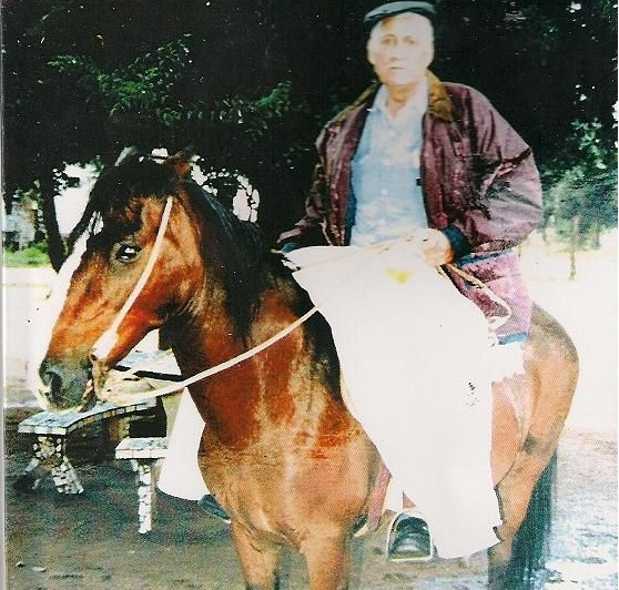 El ex-intentende de Villa Larca a caballo, foto antigua.